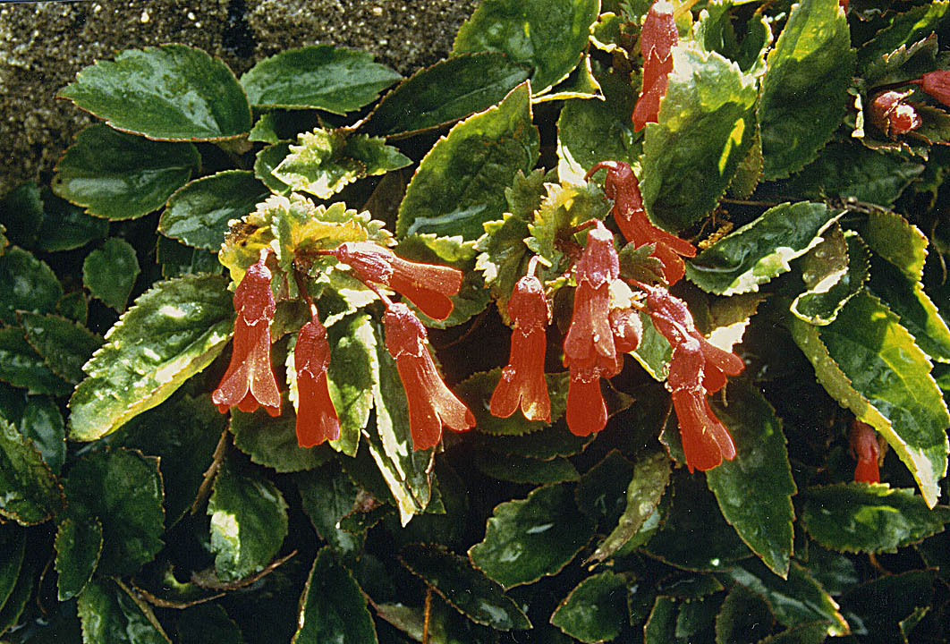 In southern Chile and Argentina this is known as Flor de la Cascada for its preference for running water. Here near Salto Laja. In context at